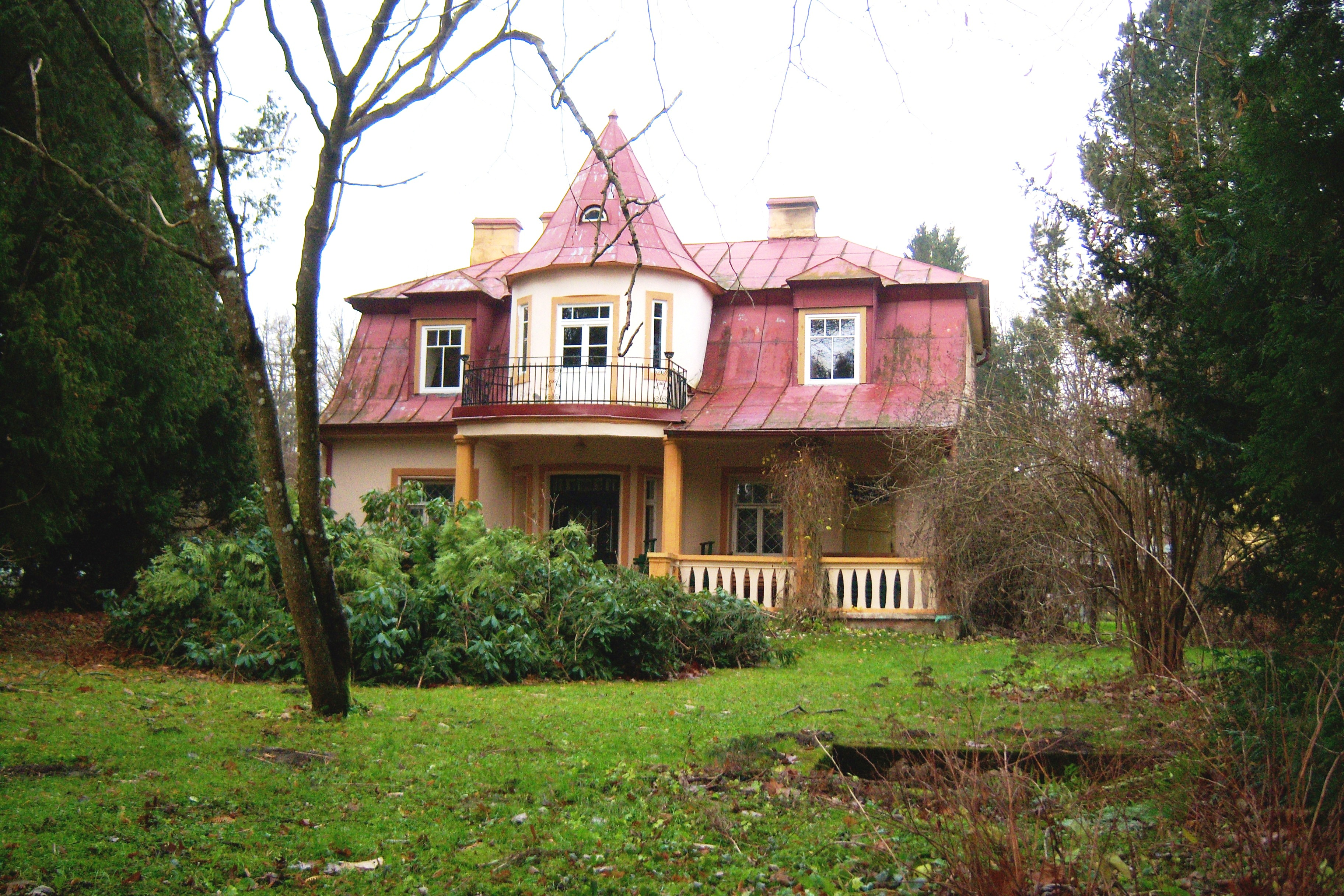 Tadas Ivanauskas' house in Obelynės parkas, Akademija, Kaunas district, Lithuania